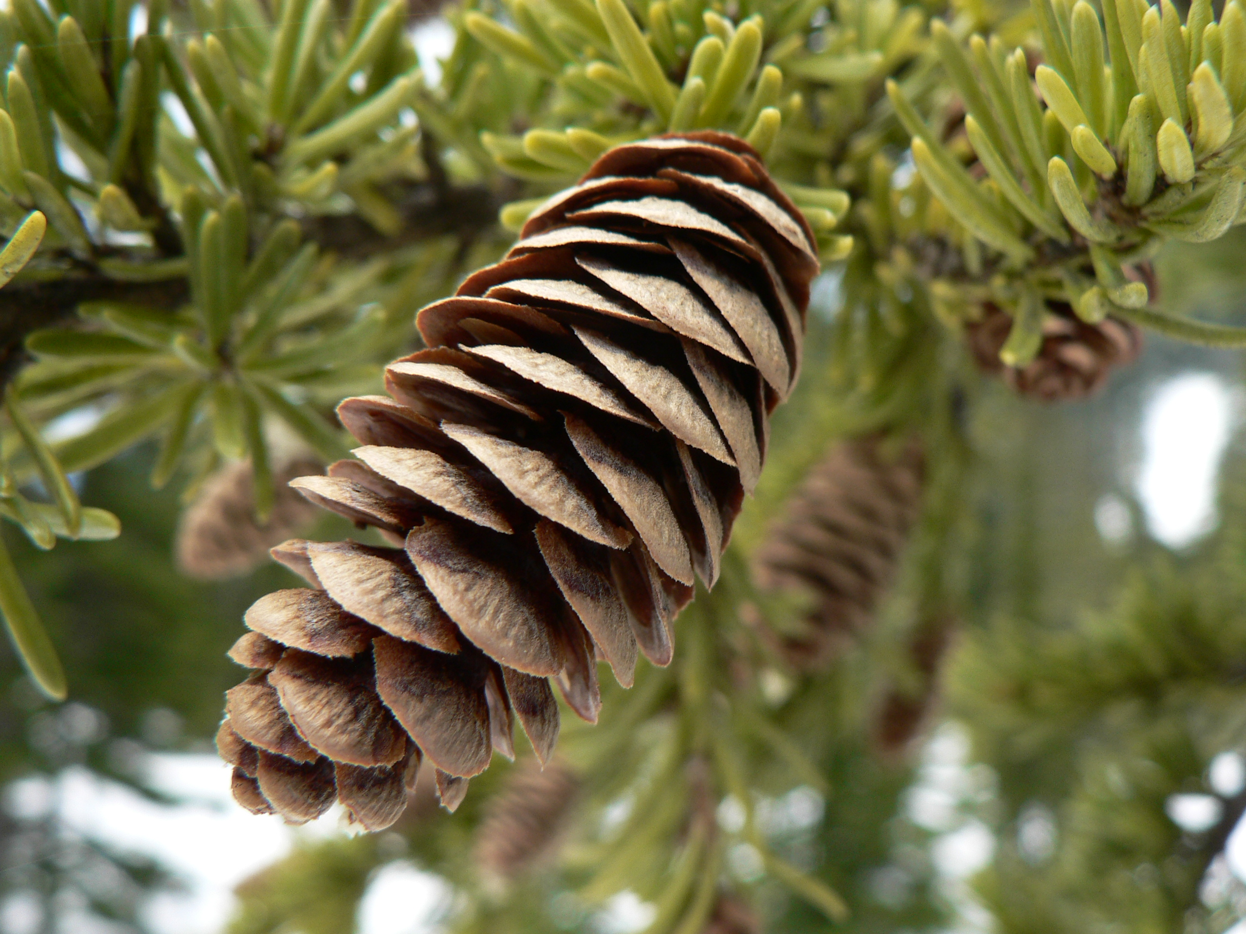 Northern Mountain Hemlock; female cones